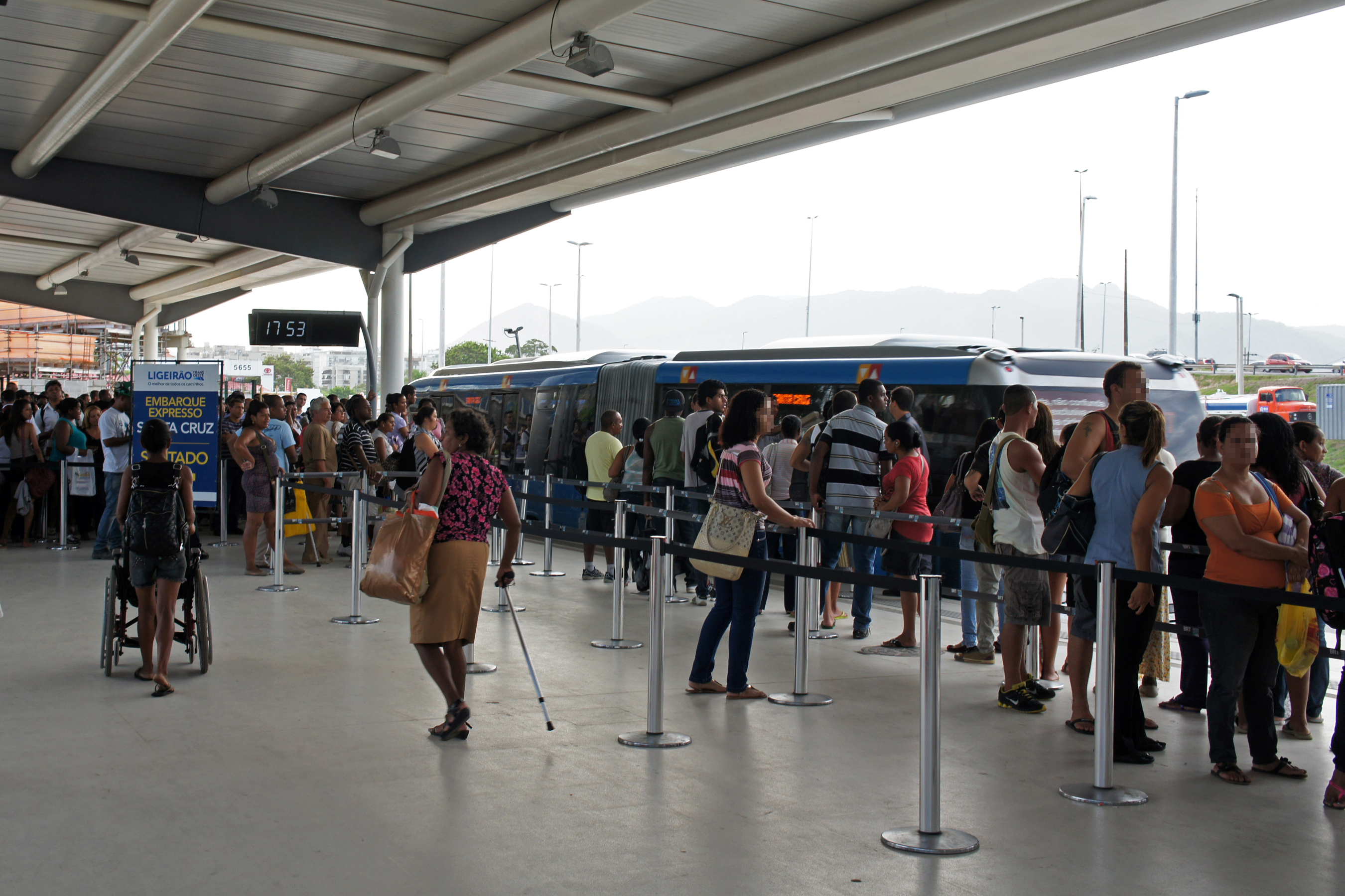 Passenger boarding an articulated bus from TransOeste at Alvorada Terminal. Barra da Tijuca, Rio de Janeiro.